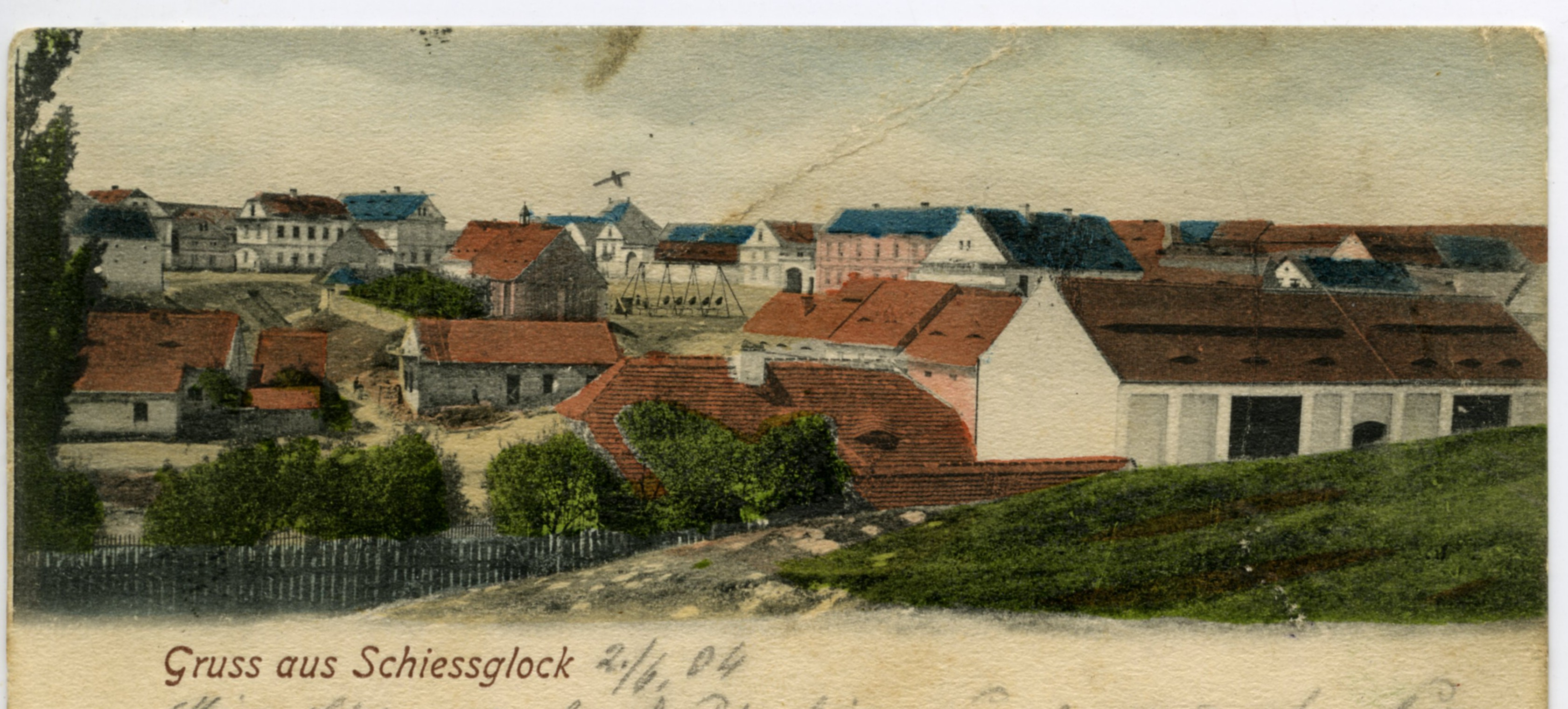 Vanished village Třískolupy in 1904